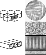 Rayleigh-Bénard Convection in a horizontal fluid layer, heated from below: Hexagonal convection cells at free upper surfaces due to the Marangoni effect, convection rolls at rigid surfaces